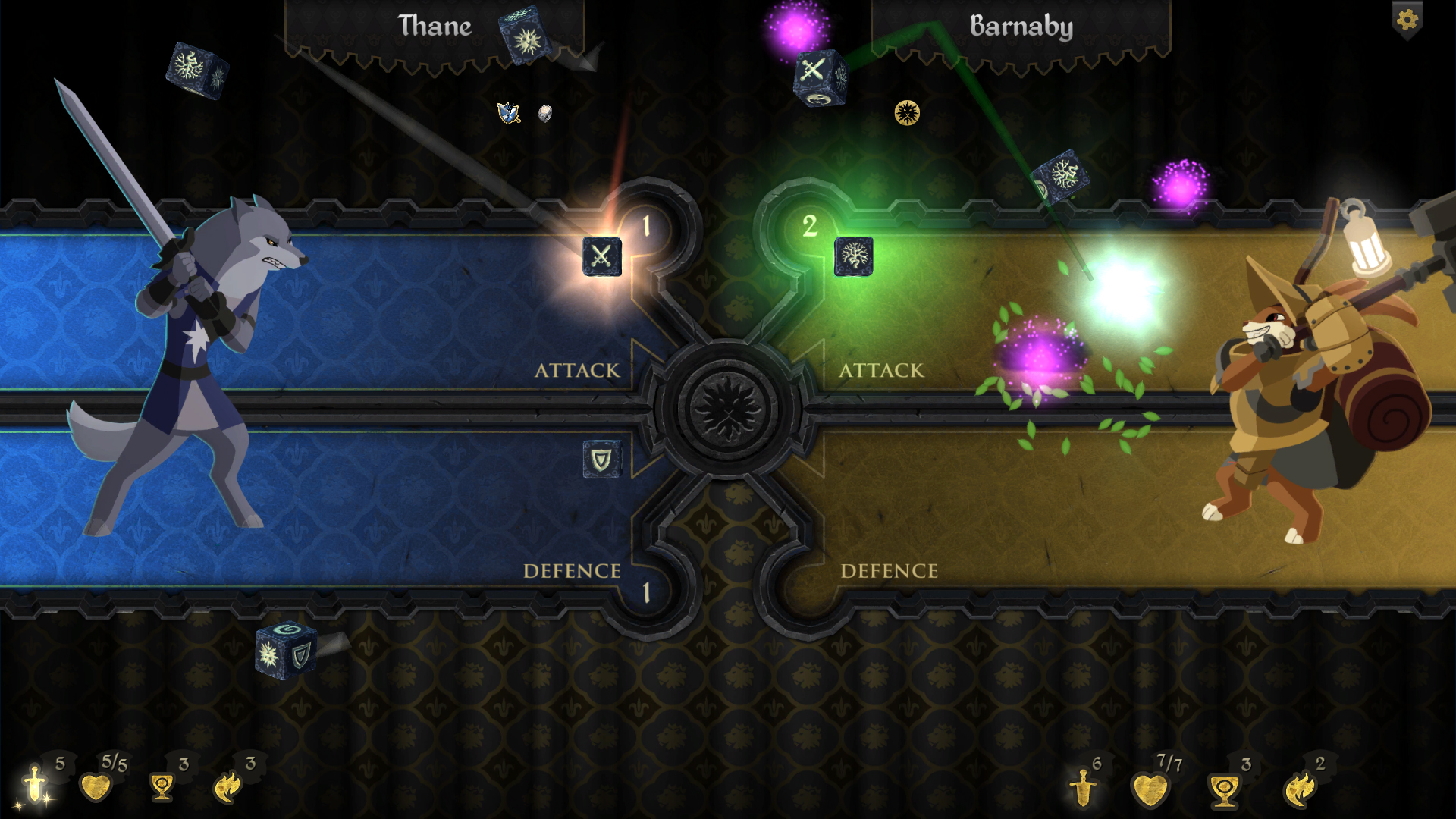 Armello screenshot. Released in 2015, the game was developed by League of Geeks and is powered by Unity.